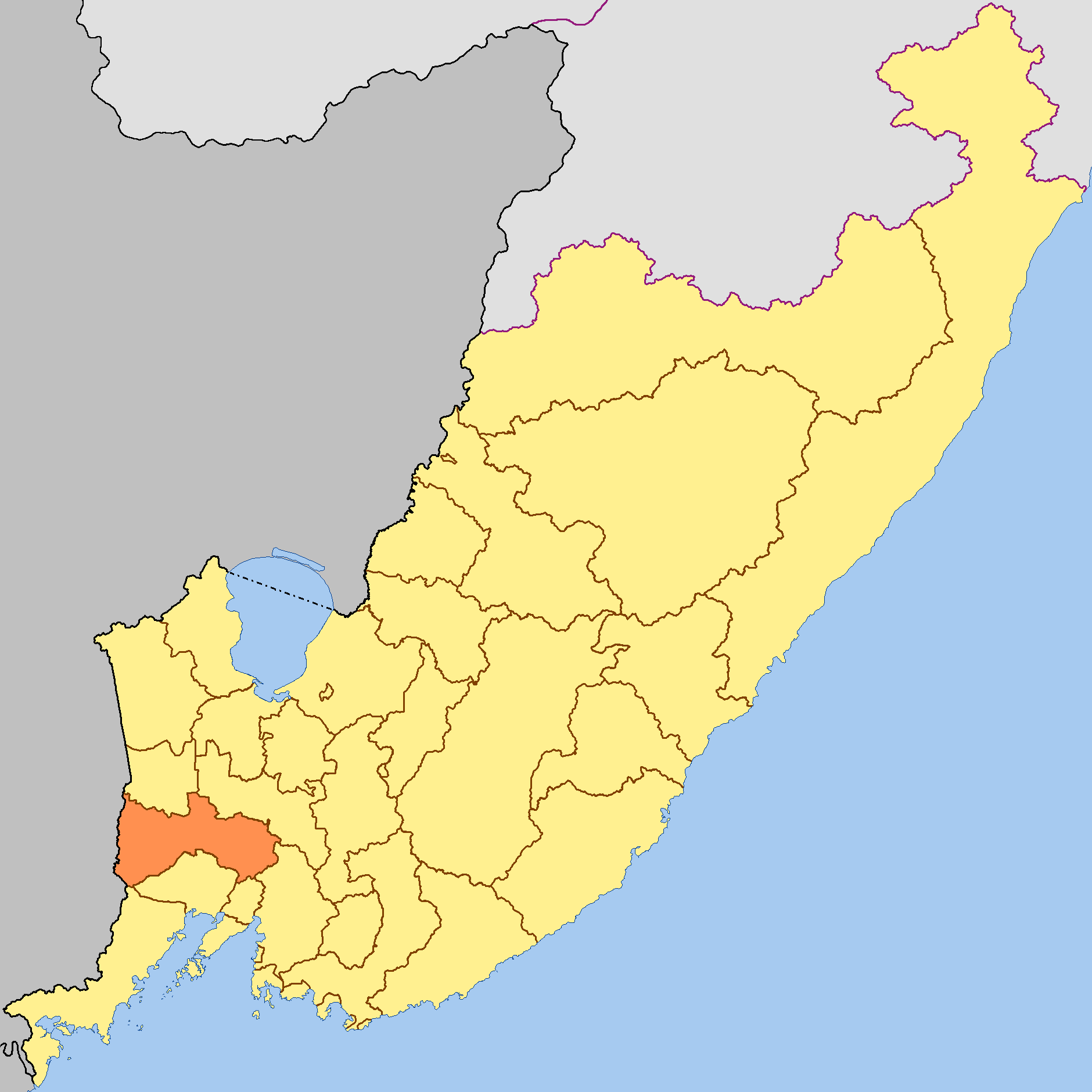 Former Ussuriysky district on the map of Primorsky kray